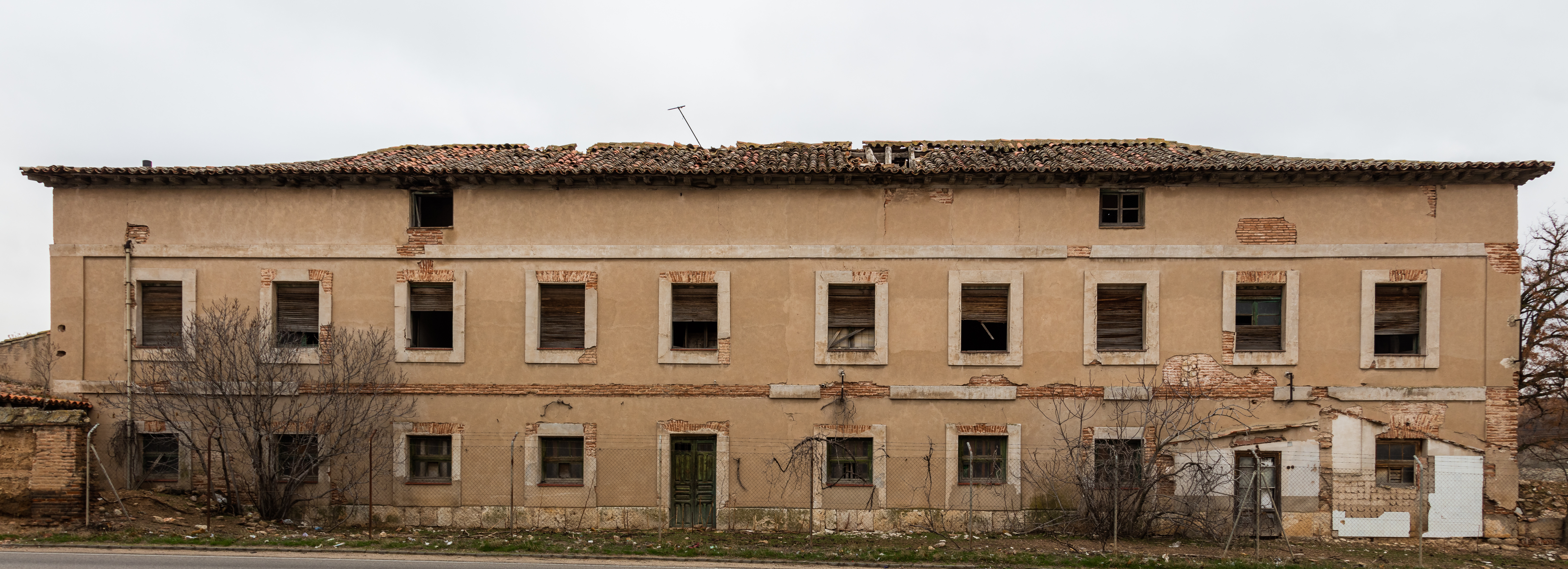 Laboratory of the englishmen, Guadalajara, Spain